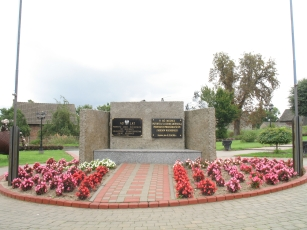 Krosnice